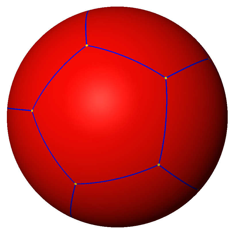 KaleidoTile, Topology and Geometry Software, Jeff Weeks Spherical dodecahedron